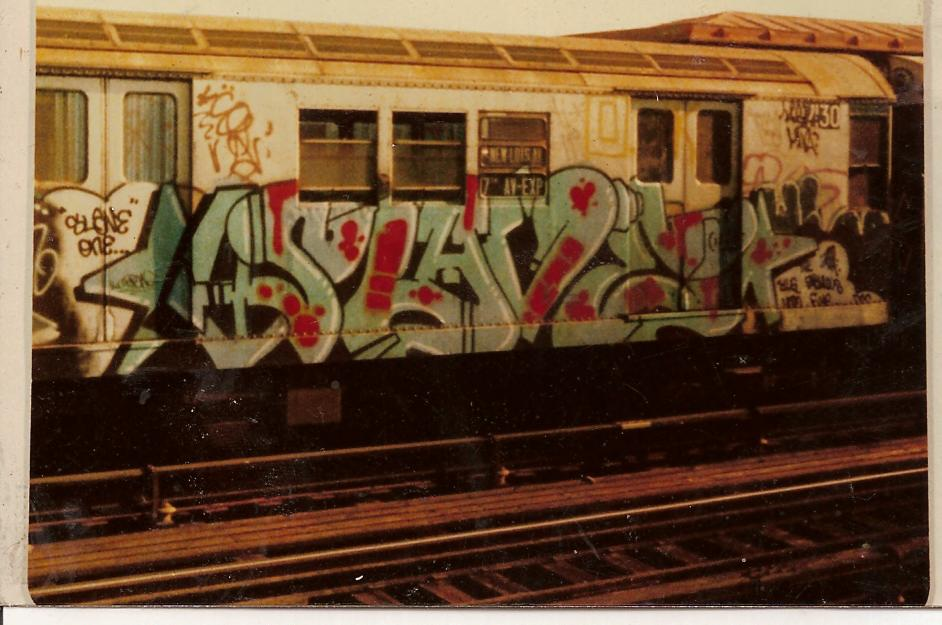 A run-down and graffiti-tagged R21-type New York Subway car as it was typical for the late 1970s.